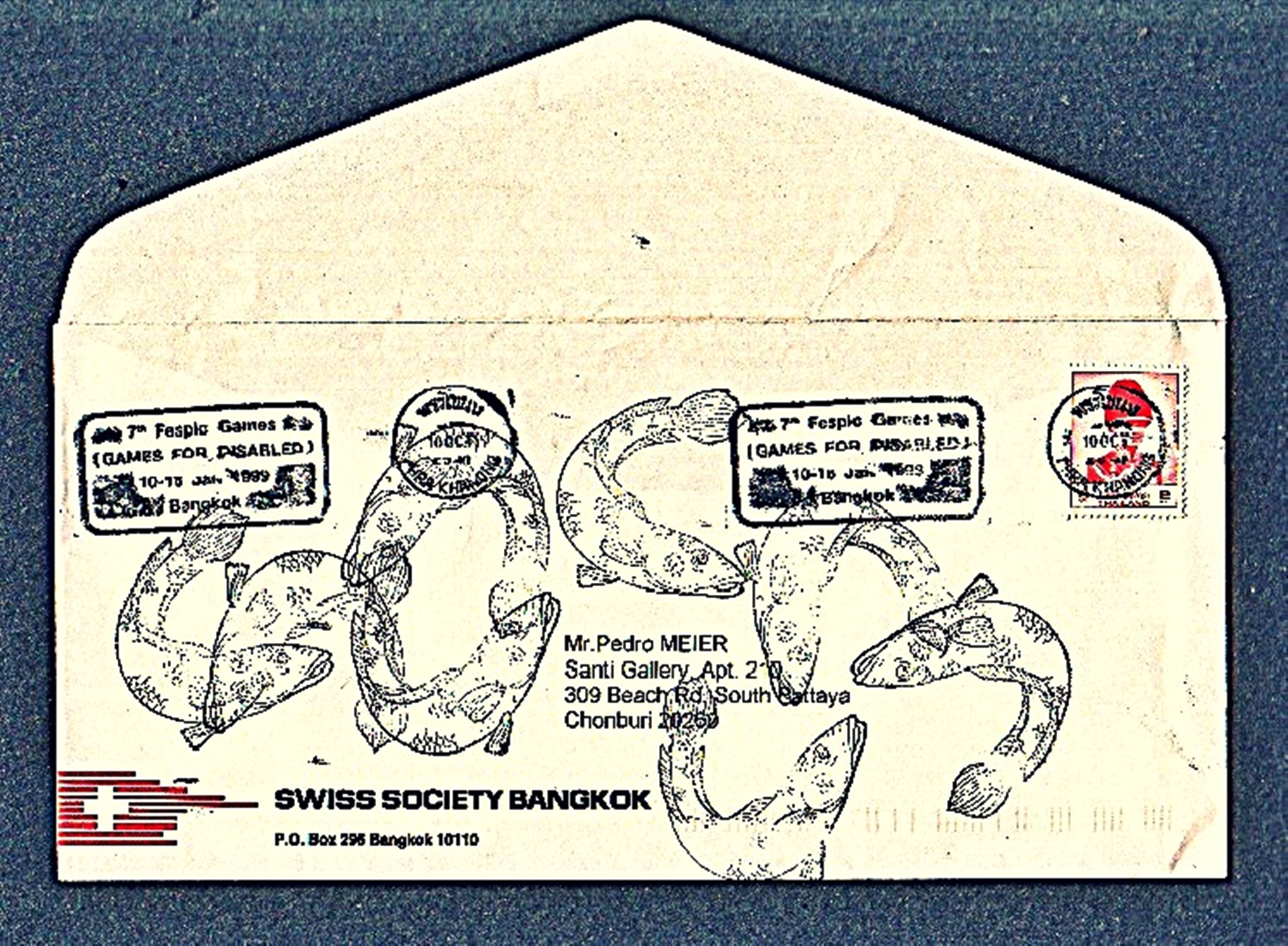 Pedro Meier Mail Art. Swiss Society Bangkok, Envelope overpainted with fishes. Marine life. 1999. Addressed to Santi Gallery Bangkok Thailand. Photo © Pedro Meier